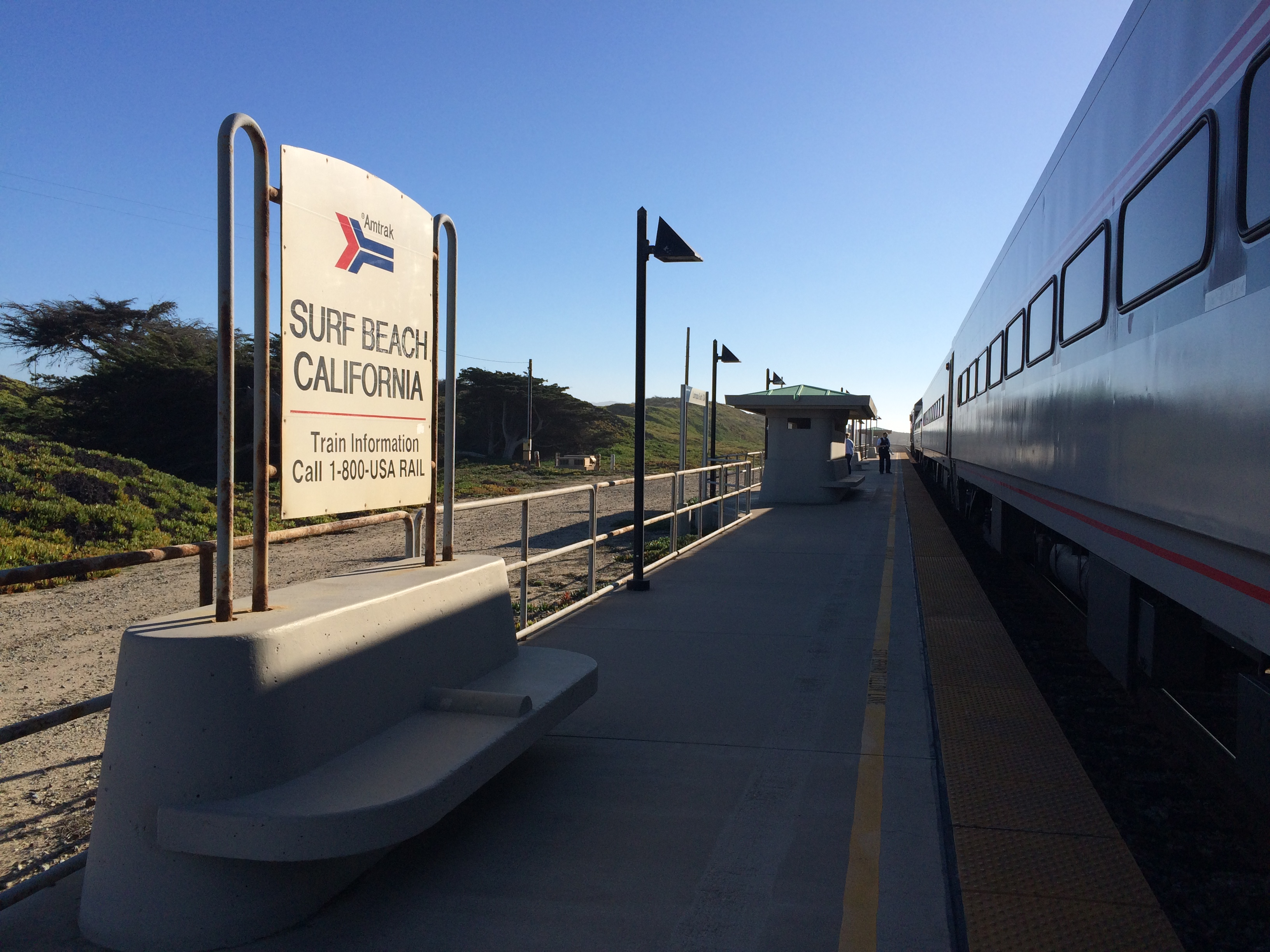 Surf Beach Amtrak train station, in the small community of Surf, California, west of the city of Lompoc.